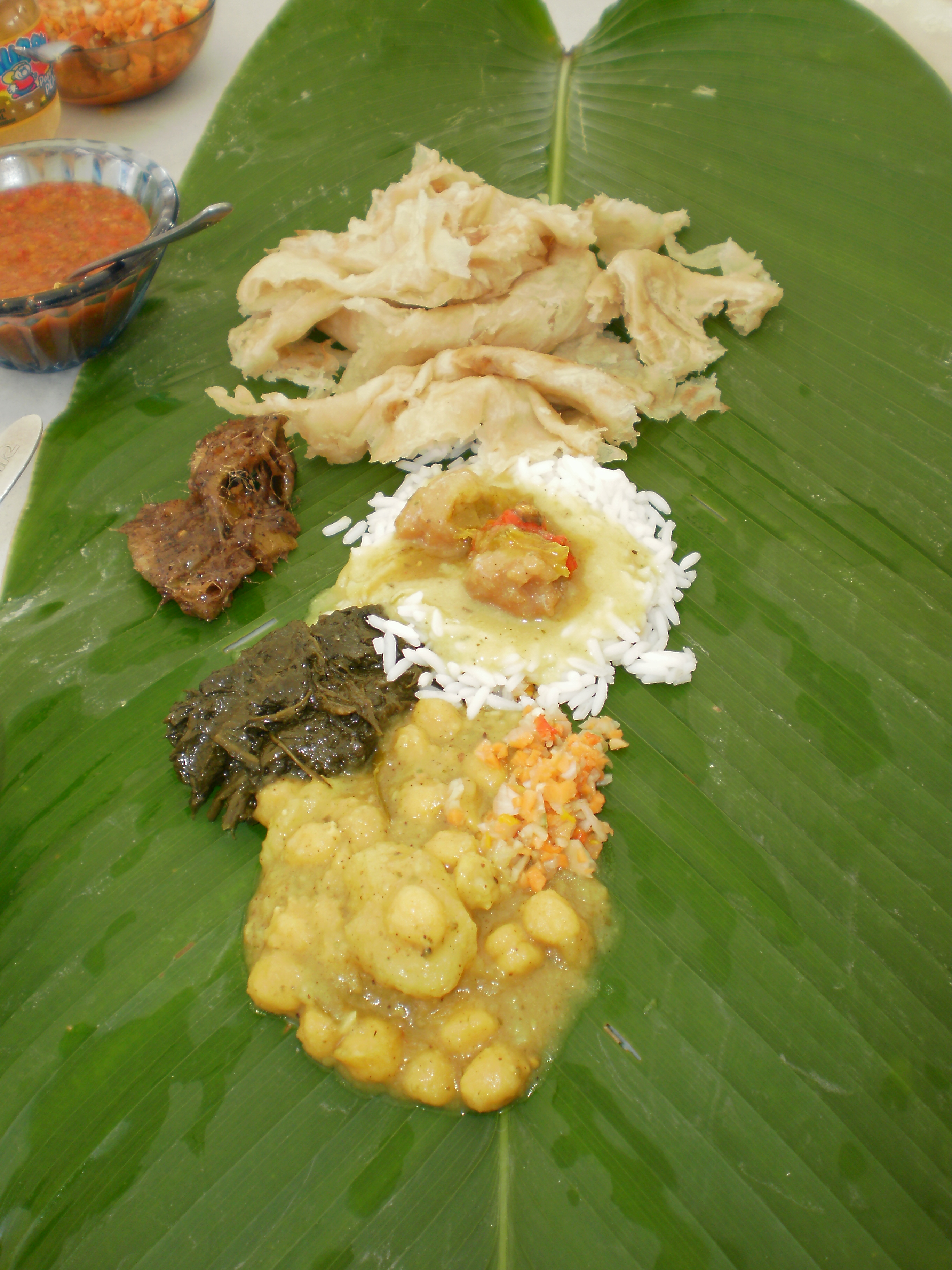 Typical vegetarian meal served during the Hindu festival of Divali (L-R: Channa and aloo; bhaji; rice with dhaal; curry mango; paratha roti). Note bowl of hot pepper sauce at top.